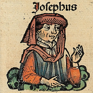 This is a part of a scan of an historical document: Title: Schedelsche Weltchronik or Nuremberg Chronicle